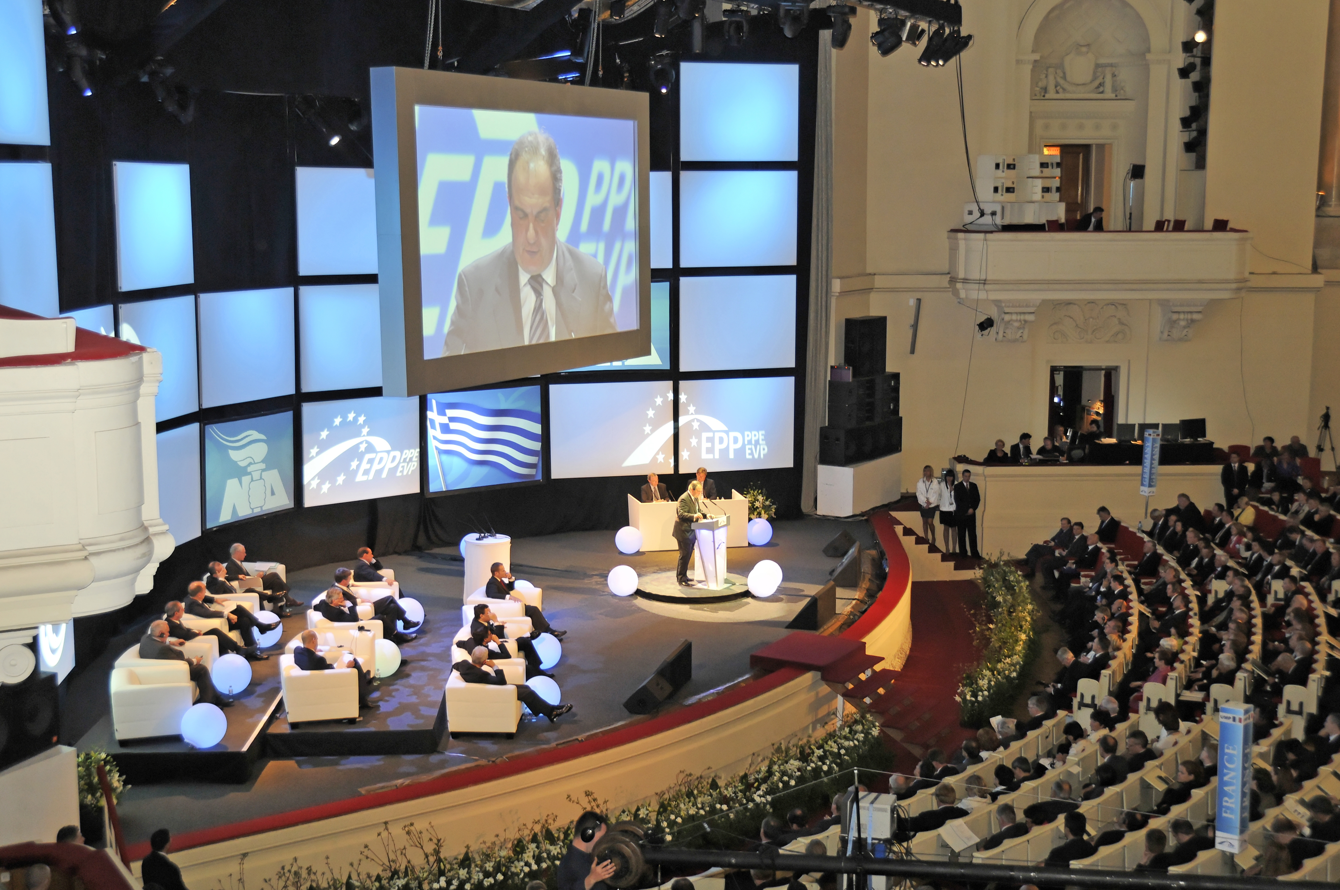 EPP Congress Warsaw